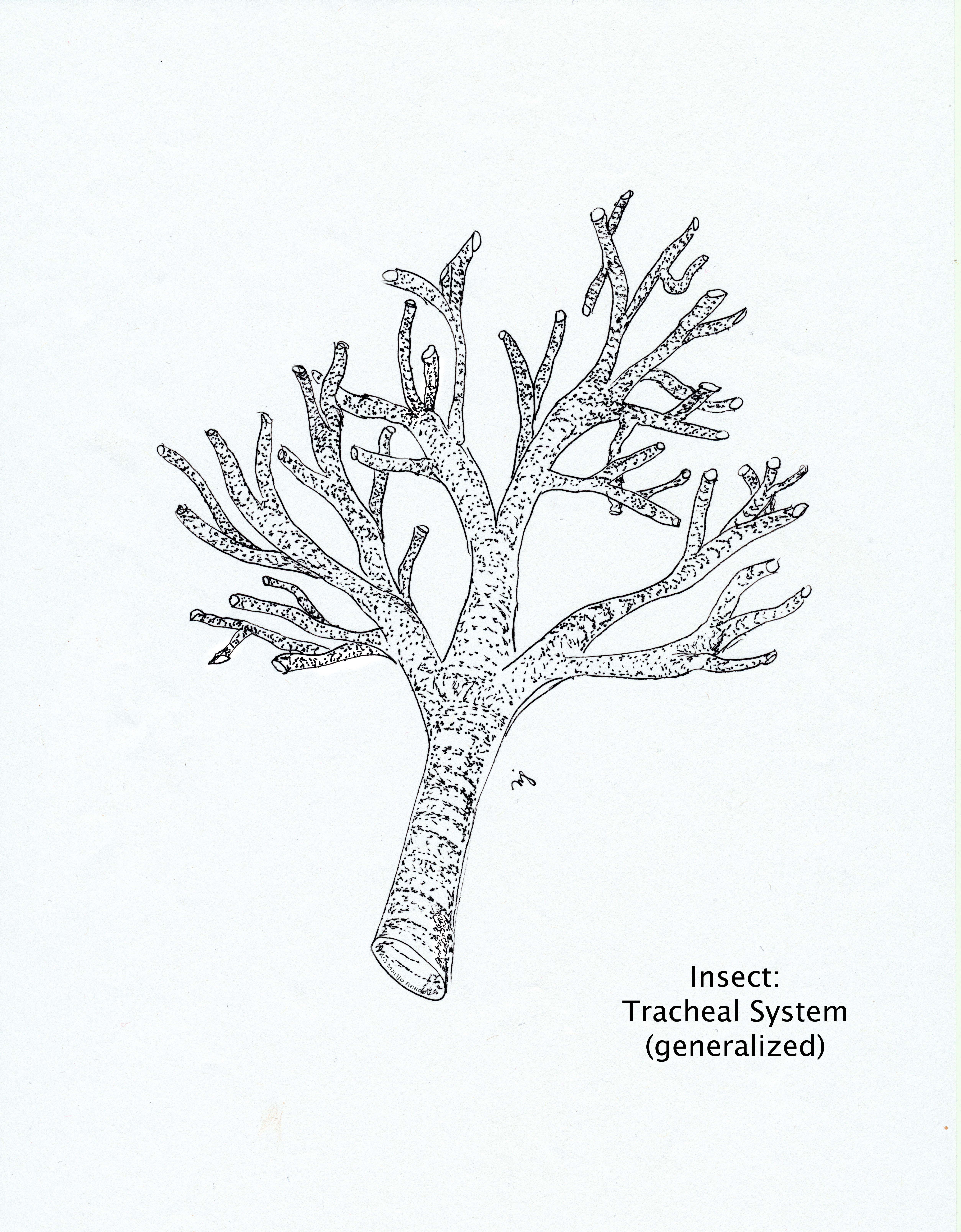 Most small insects breathe passively, relying on diffusion and their physical movement to move air through the system. Air diffuses through a series of tubes (trachea) that branch and subdivide through the body. Gases enter and leave the body through holes along the sides of the body called "spiracles". Inside the body, the tracheal trunk divides and subdivides again and again into smaller and smaller tracheal branches. The branches reach bits of tissue and terminate directly on the cell membranes as fluid-filled tips. This contact at the terminal tracheole permits the exchange of gases. This passive system of diffusion is considered largely responsible for limiting the size of insects. In the carboniferous era, when the oxygen content of the atmosphere was higher, insects could achieve a larger size. The trachea are reinforced by rings of chitin (taenidia) that spiral through the tracheal walls. Chitin is the same protein that protects the insects by forming their exoskeleton. Some insects have regions that lack chitin. These areas form collapsible reservoirs for storing air. Some larger insects have the ability to open and close some of their spiracles. By moving their abdominal muscles, they may be able to move air more effectively through the body though interconnecting tracheal trunks. Even here, diffusion is the means by which gases are exchanged at the terminal connections.